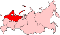 Northwestern Federal District of Russia.